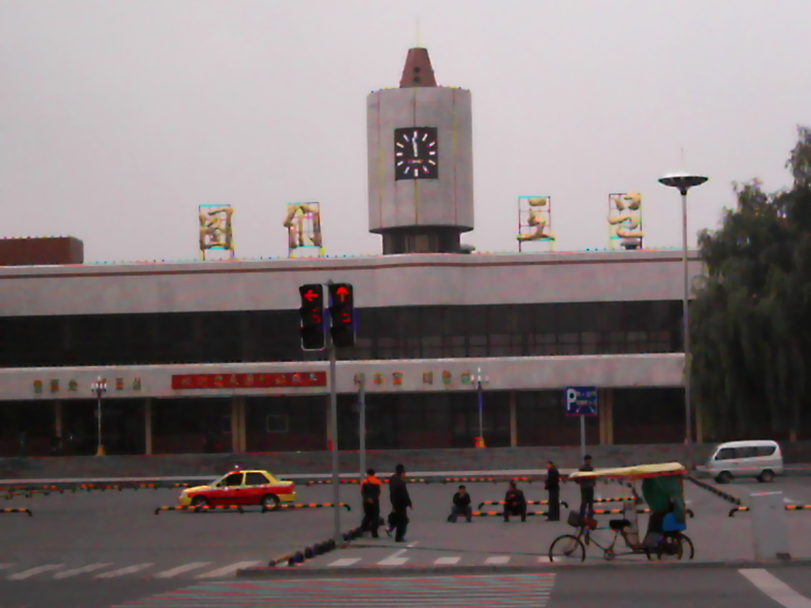 Tumes station Tumen JILIN CHINA